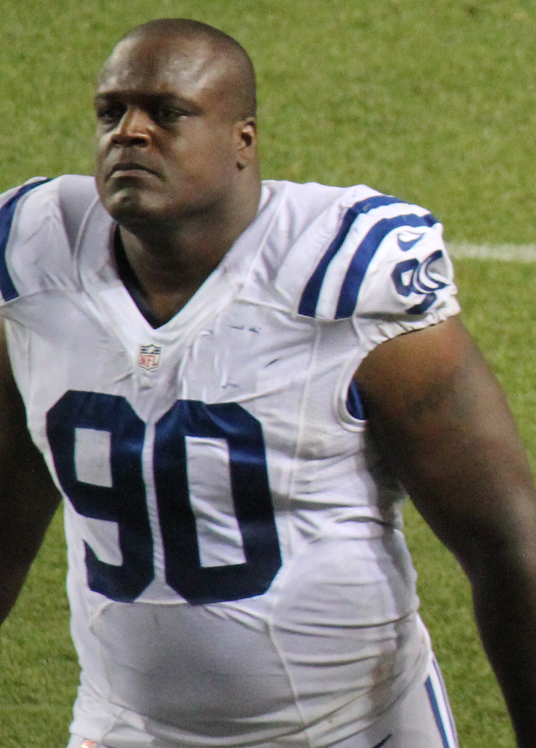 Cory Redding, a player on the National Football League.